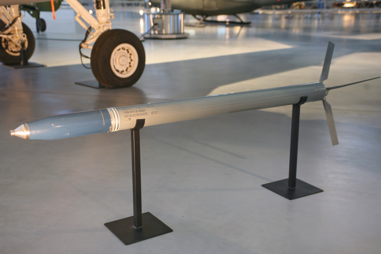 U.S. Navy Zuni was an improved version of the HVAR (High Velocity Aircraft Rocket), also called the Holy Moses, which was used during World War II as an air-to-surface weapon. The Zuni had a greater velocity than the HVAR, more penetrating power, and longer range. The Zuni's fins automatically unfolded when the missile left its launcher. The Zuni was designed for use against enemy bombers, pillboxes, gun emplacements, trains, vehicle convoys, ammunition dumps, and small ships. The Zuni was very inexpensive, costing about $400 each, and served as both an air-to-surface and air-to-air missile. It was used to the 1980s. Steven F. Udvar-Hazy Center.